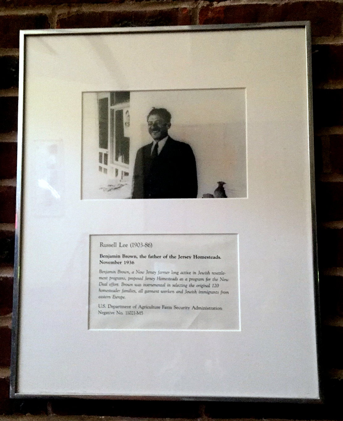 Roosevelt, N.J. School Wall Picture of Benjamin Brown